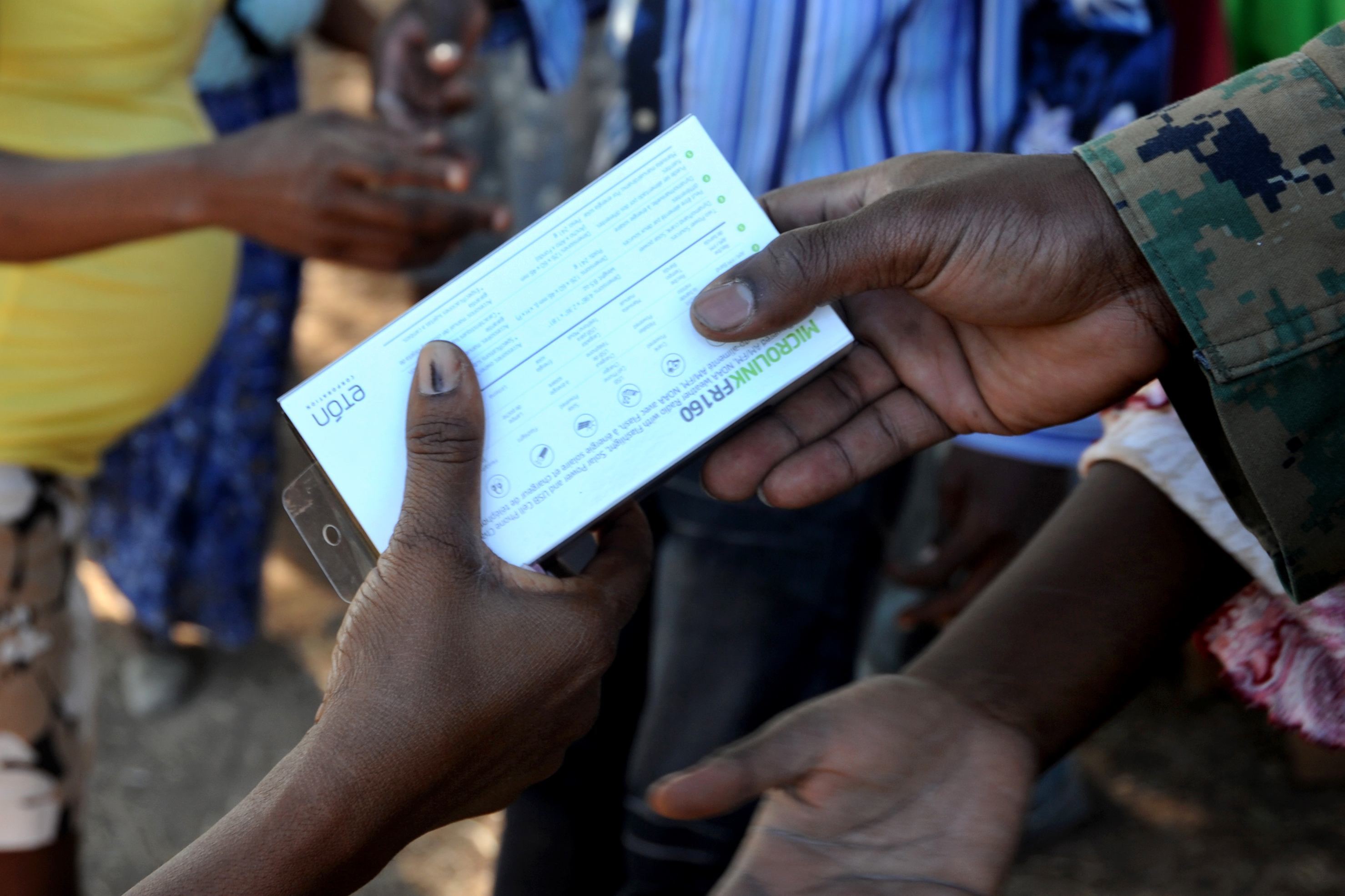 U.S. Marine Corps Sgt. Mark Leuis explains how to use a hand-cranked FM radio at Landing Zone 6 distribution center, Port au Prince, Haiti.